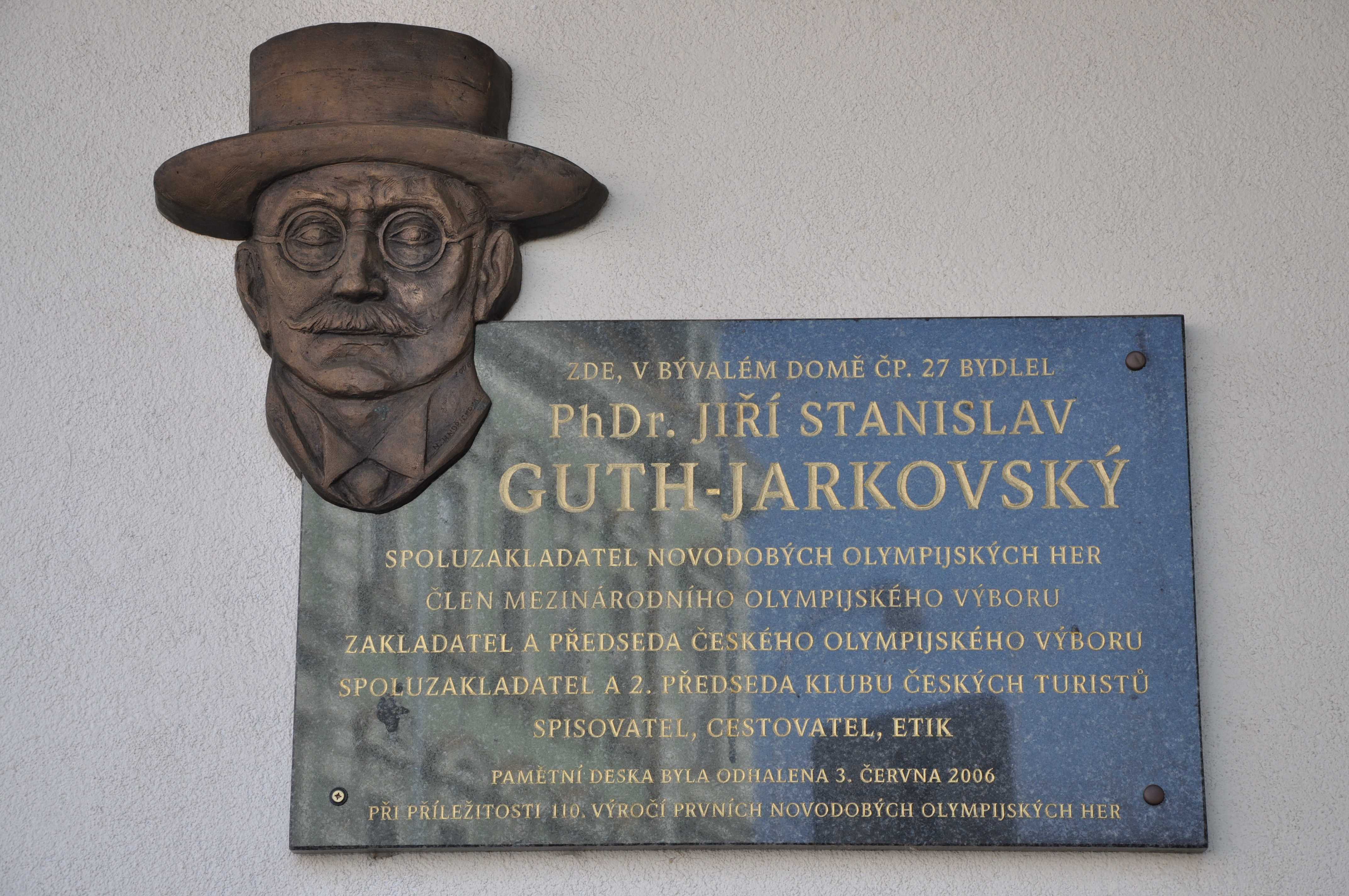 The plaque of Jiří Stanislav Guth-Jarkovský (1861–1943) in Kostelec nad Orlicí.